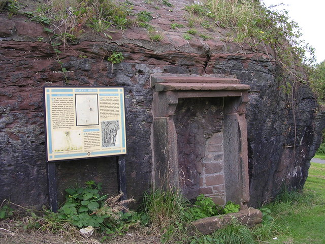 Temple of Minerva